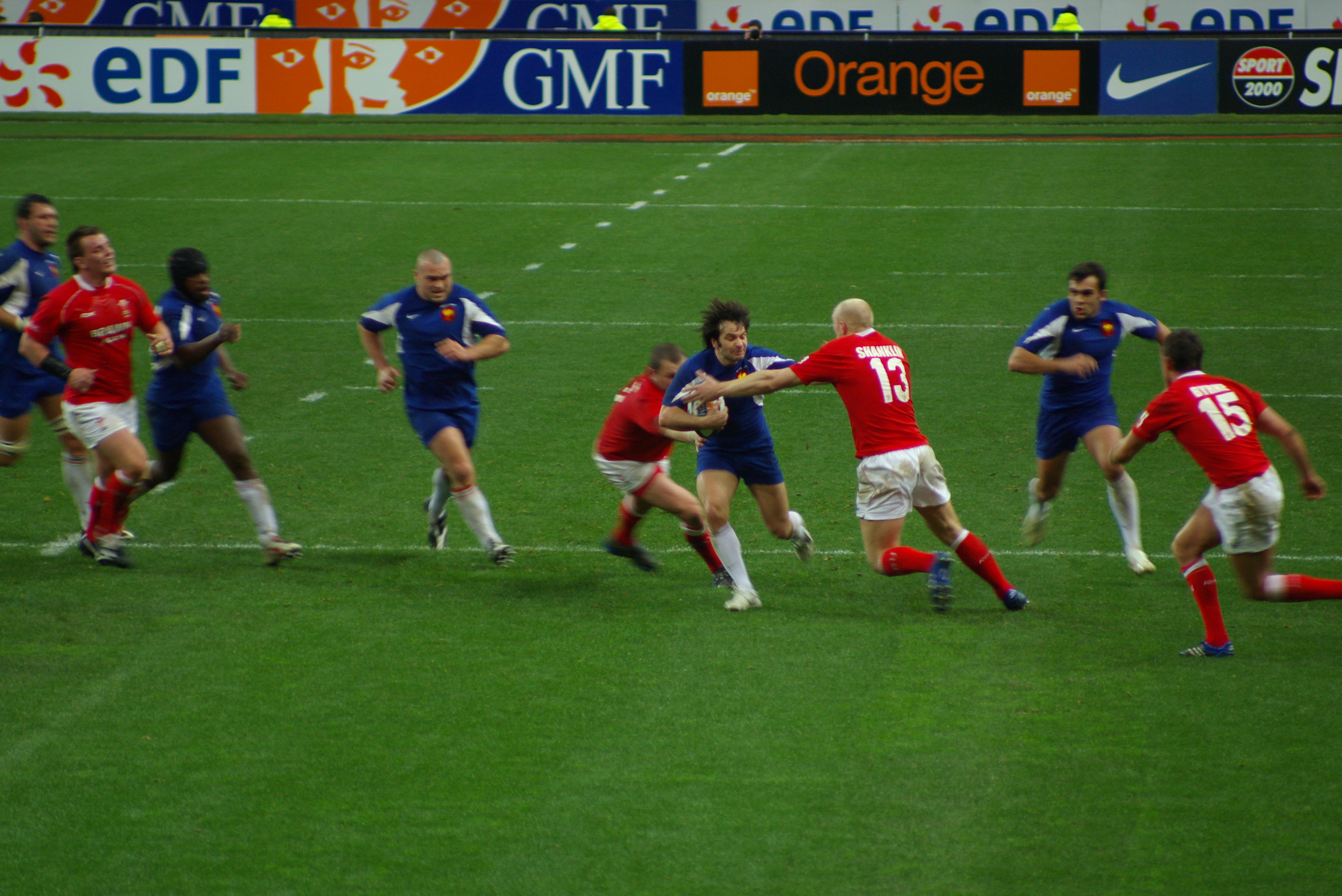 Pictures from the rugby game France vs Wales for 6 Nations 2007 which took place in Stade de France, Paris, 24/02/2007.